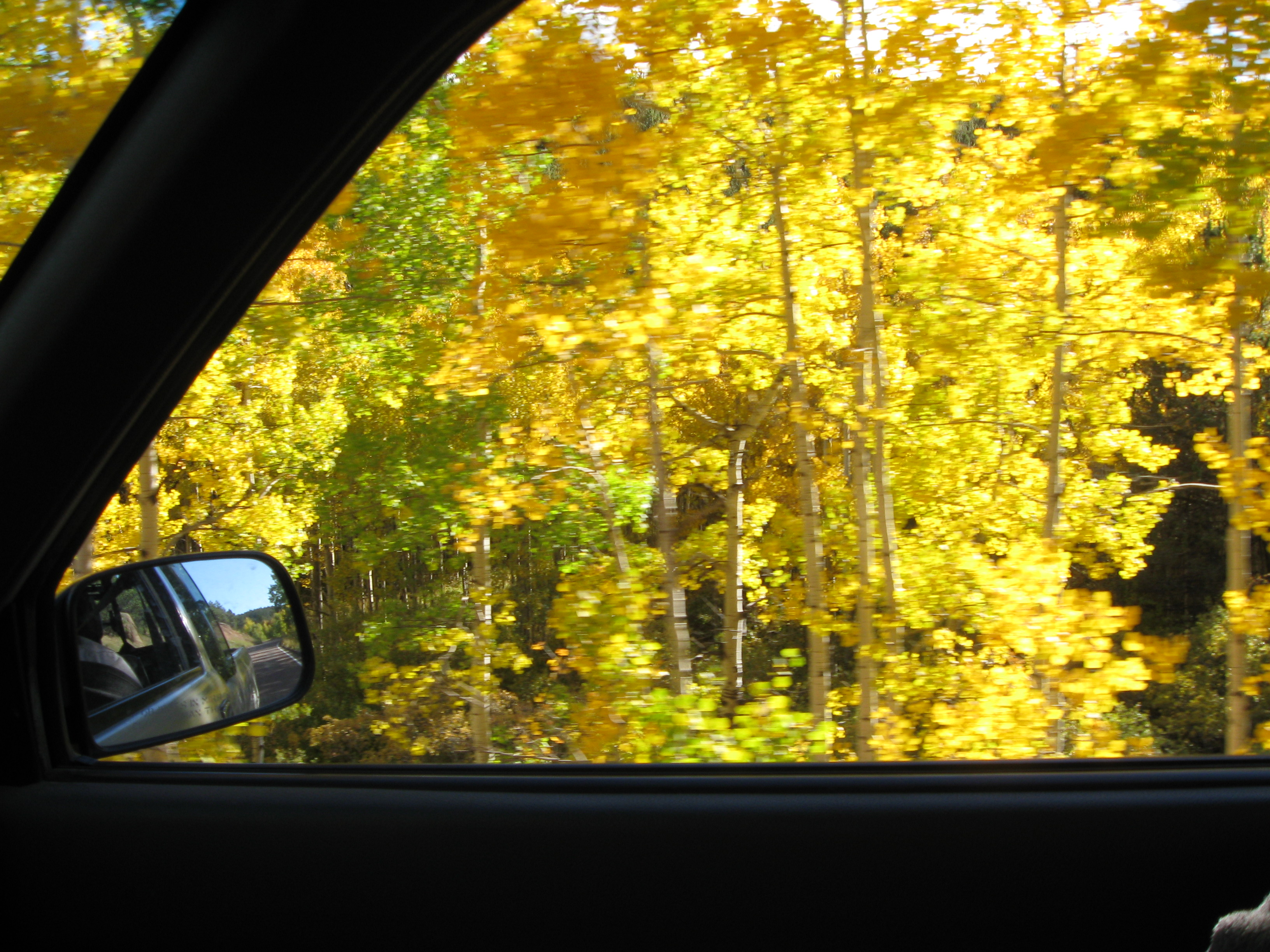 Fall Colors in Pike National Forest. September 2011.